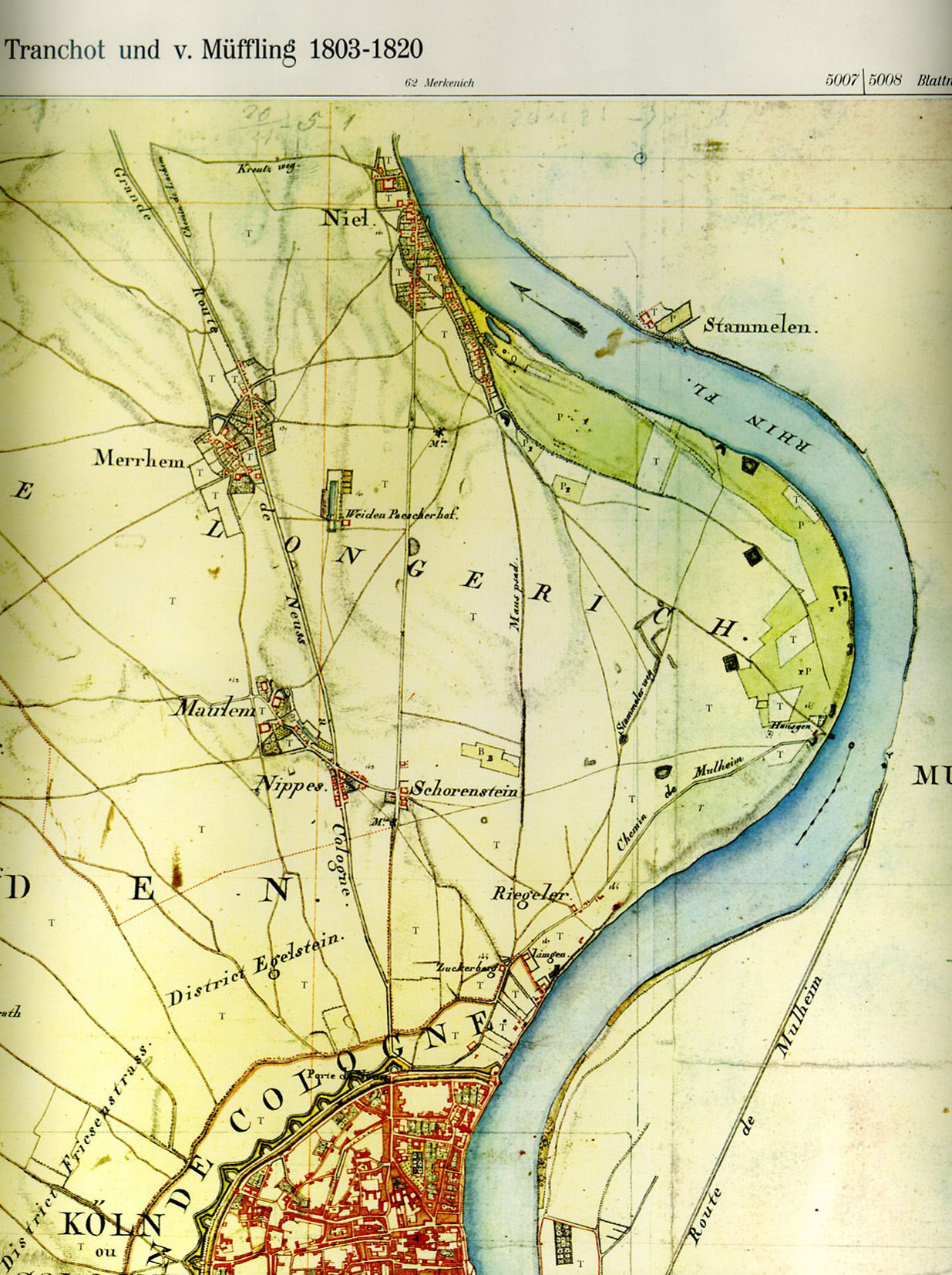 Map (detail) of Cologne, Rhineland (1803-1820)